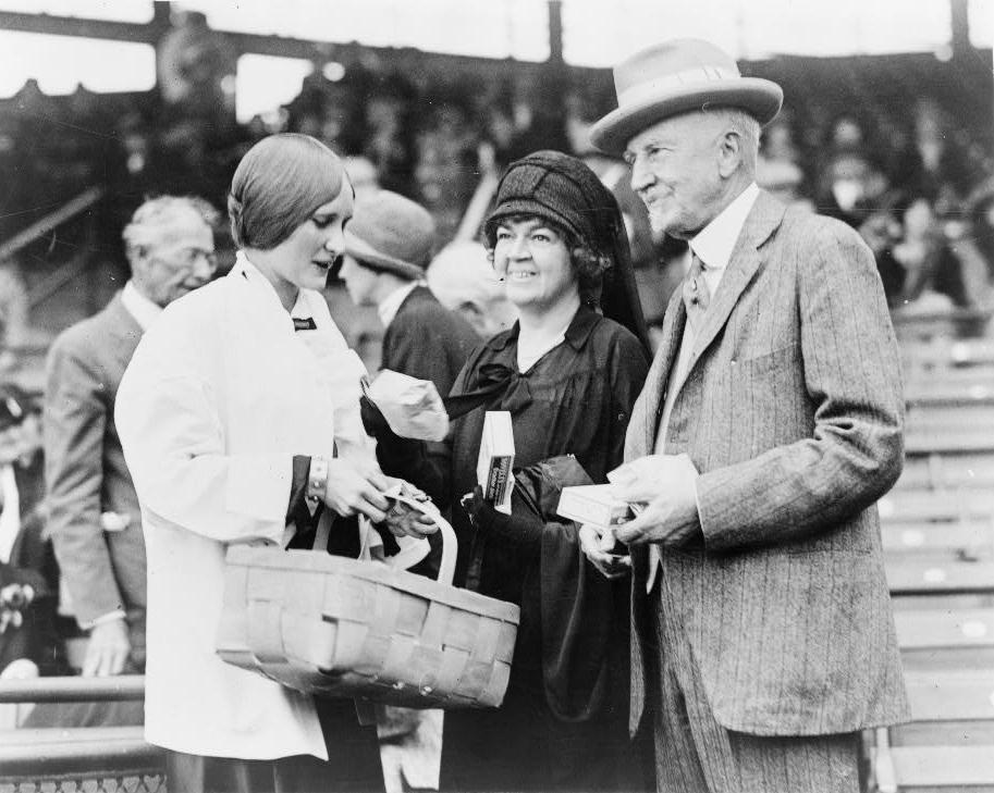 TITLE: Margaret Speaks, daughter of Rep. John C. Speaks of Ohio, snapped while selling peanuts to Rep. Edith N. Rogers of Mass. and Senator F.H. Gillett at the game today between the Democratic and Republican teams of the House of Representatives CALL NUMBER: LOT 12351-3 [P&P] Check for an online group record (may link to related items) REPRODUCTION NUMBER: LC-USZ62-110241 (b&w film copy neg.) No known restrictions on publication. MEDIUM: 1 photographic print. CREATED/PUBLISHED: [1926(?)] National Photo Company Collection. Photographic prints 1920-1930. DIGITAL ID: (b&w film copy neg.) cph 3c10241 CARD #: 94503439